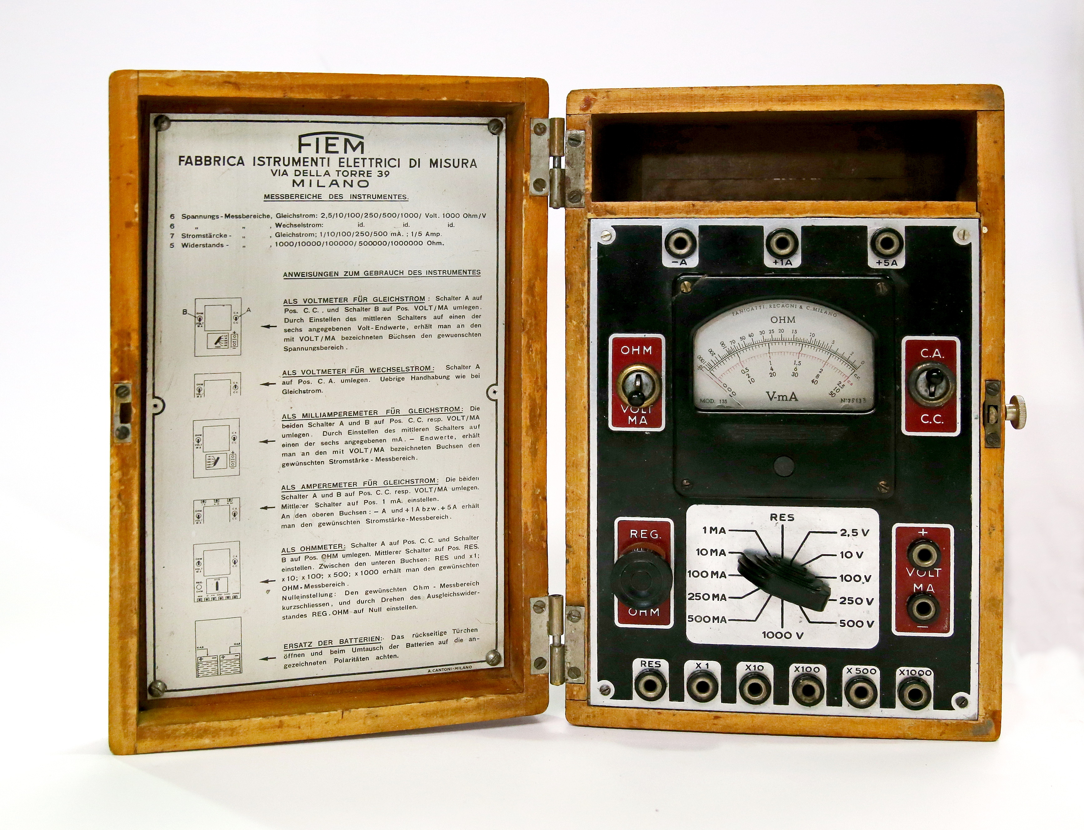 Volt-Amper-Om meter. It is located in Museum of Science and Technology Belgrade.